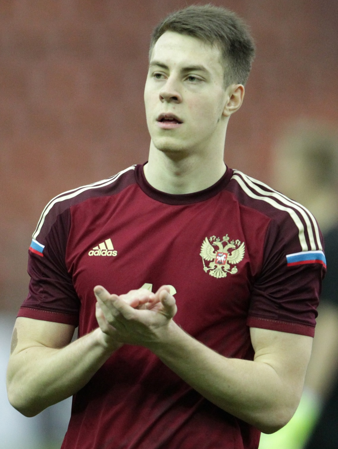 Maksim Karpov with Russia U-21 against Estonia U-21 on 21 January 2016.